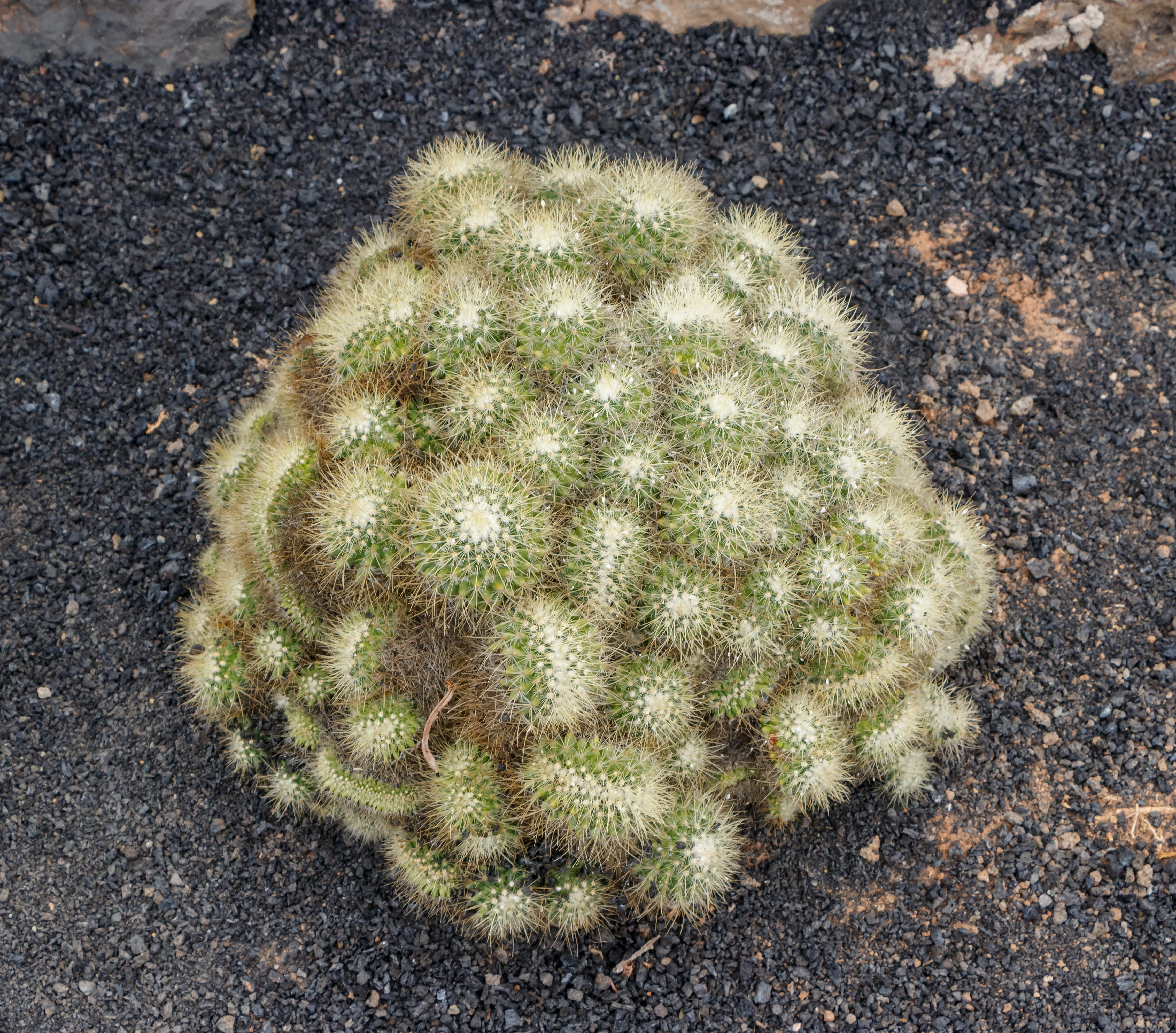 Mammillaria rhodantha pringlei forma cristata (J. M. Coult.) D. R. Hunt; habitus; Jardin de Cactus, Guatiza, Lanzarote, Canary Islands, Spain.